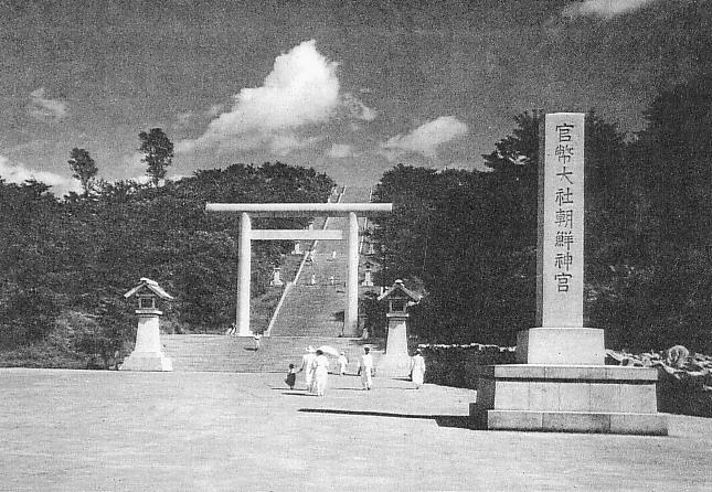 Entrance to Chosen Jingu